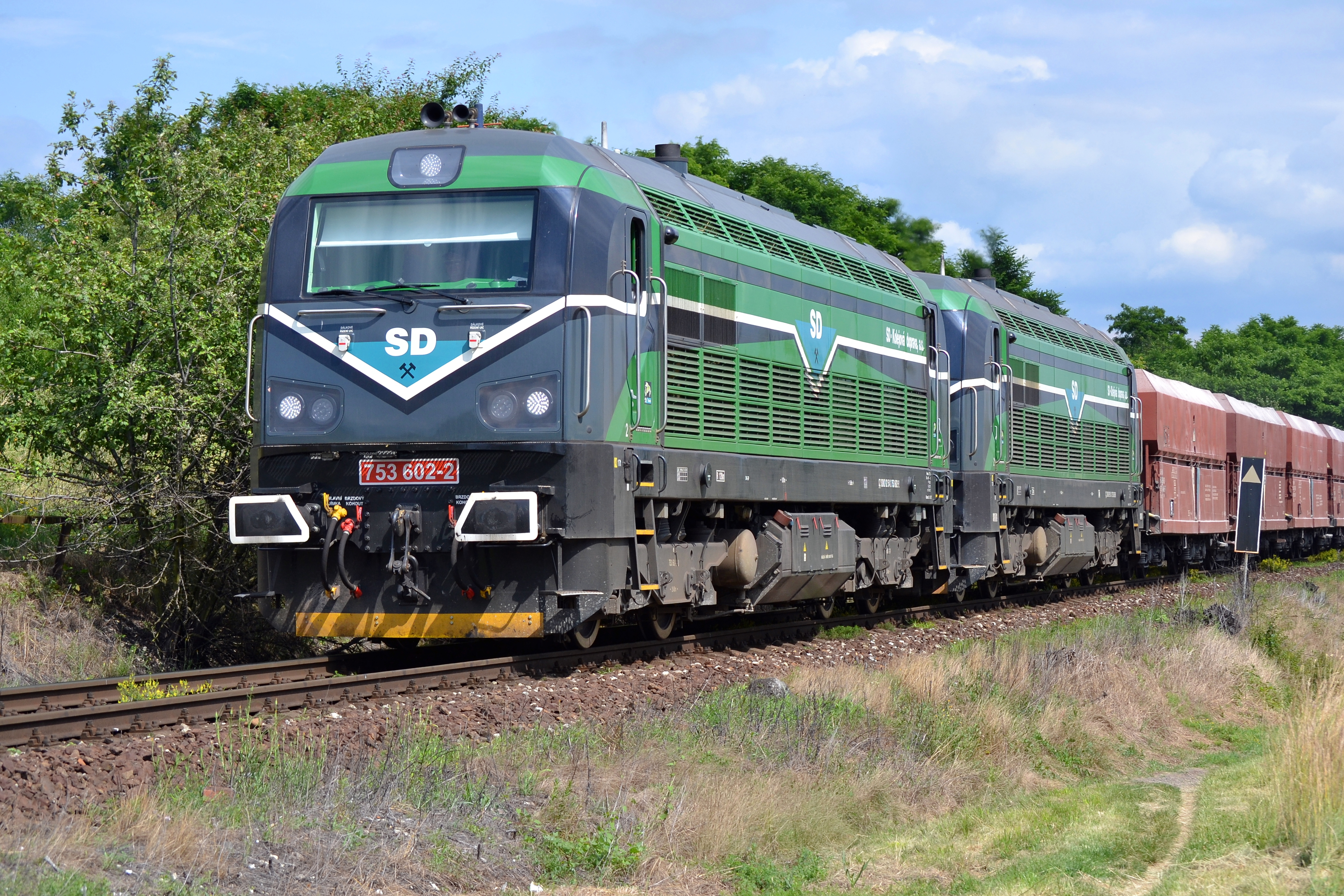 Locomotive class 753.6 of SD Kolejová doprava. Train carrying limestone passes through the town of Hostivice, Central Bohemian Region, Czech Republic.